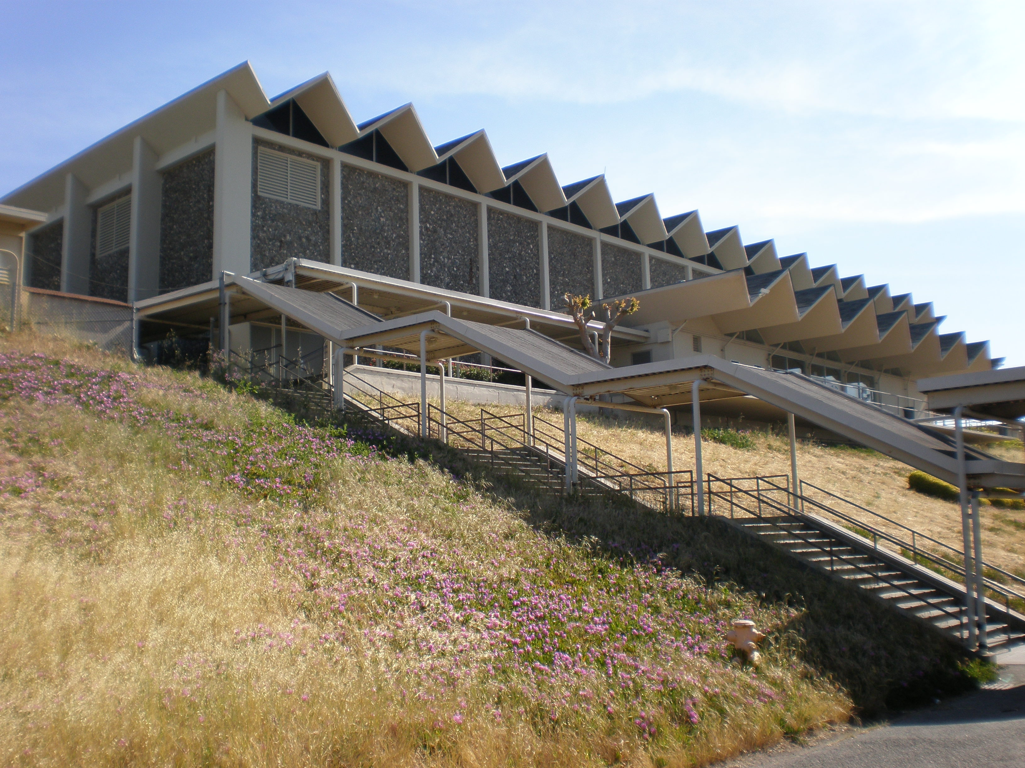 The gym of El Camino High School in South San Francisco, California as seen from the southwest.